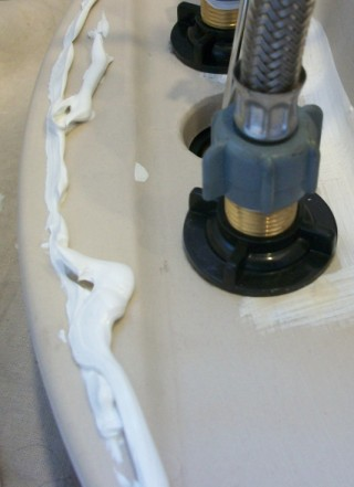 Silicone-based caulk is applied to the underside of an upturned bathroom sink which is about to be installed. The caulk will seal the gap between the sink and the countertop, preventing moisture from getting underneath the sink. Caulks for plumbing uses typically come in white, off-white, and clear colors. Source: here entitled "Swapping out a bathroom sink" (handyman project) Note the words "public domain" note at the top of the article. Further questions, ask me (tom sulcer) on my Wikipedia talk page here.